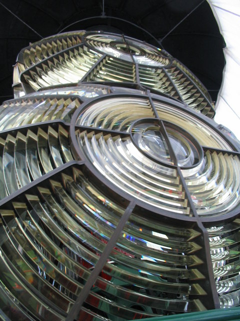 Lighthouse Lantern The lantern inside of Souter Lighthouse